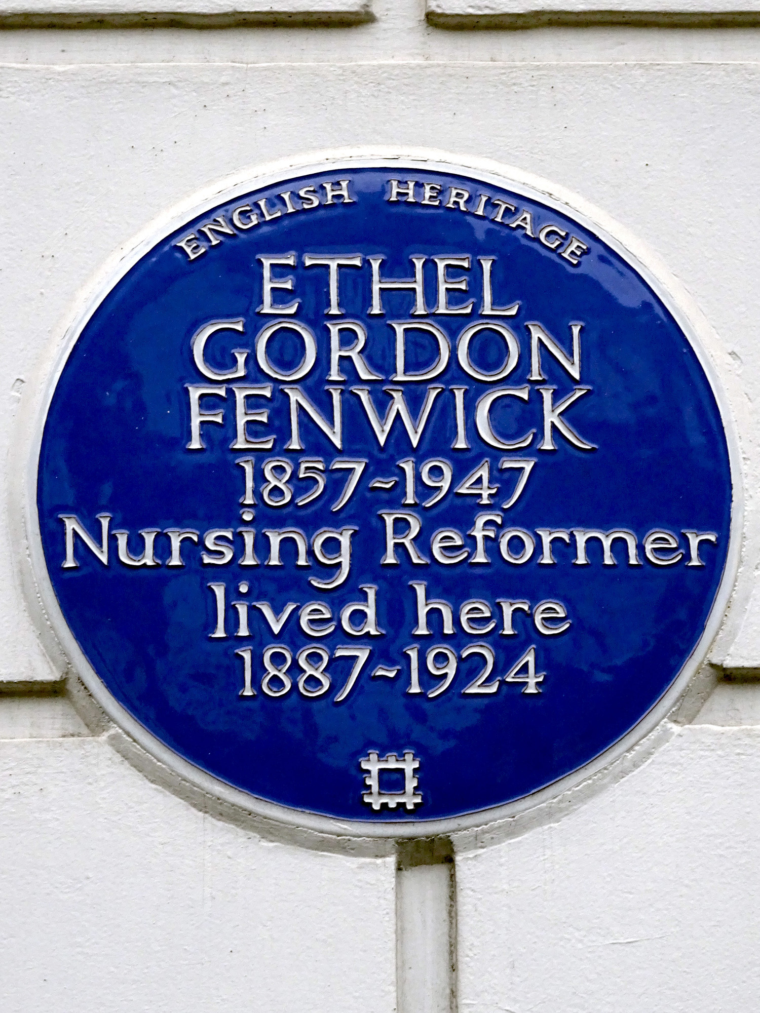 Blue plaque erected in 1999 by English Heritage at 20 Upper Wimpole Street, Marylebone, London W1G 6LZ, City of Westminster